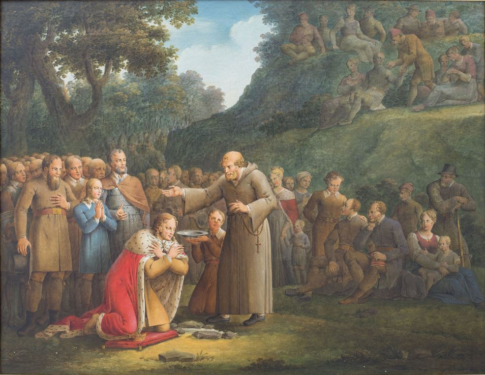 King Olof Sköt-Konung is baptized by Bishop Sigfrid